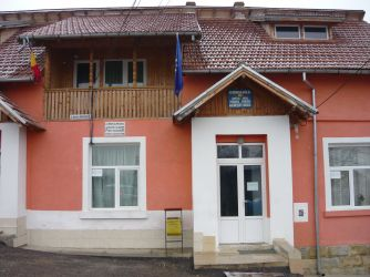 Primarie Albestii de Muscel